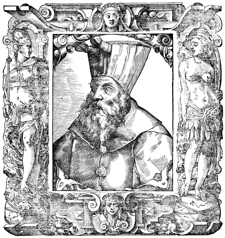 Portrait of Al-Ashraf Qansuh al-Ghawri, Mamluk Sultan of Egypt.